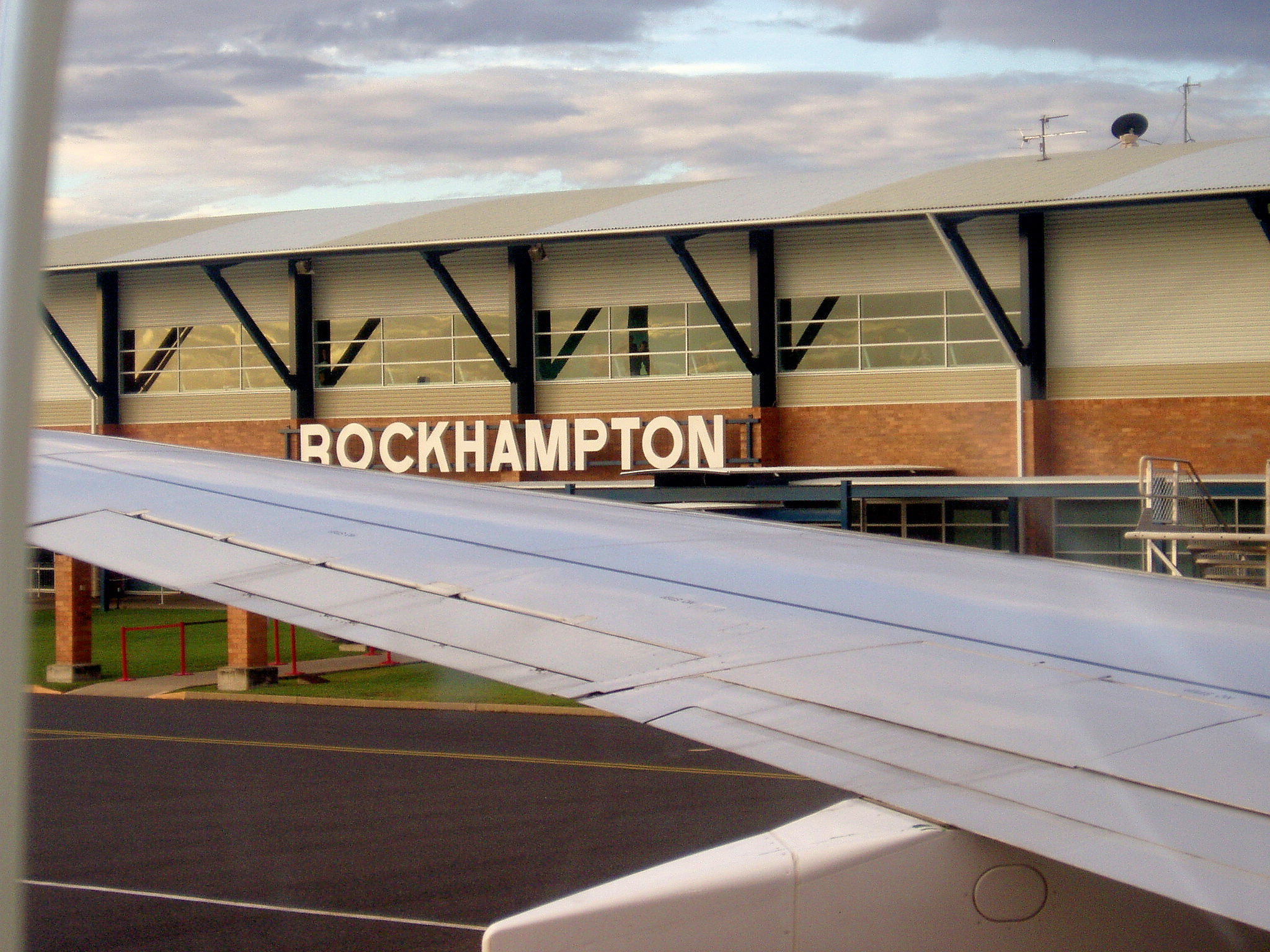 I took this photo in July 2005 aboard a plane departing Rockhampton Airport. It shows the entrance / exit to Rockhampton Airport from the runway.